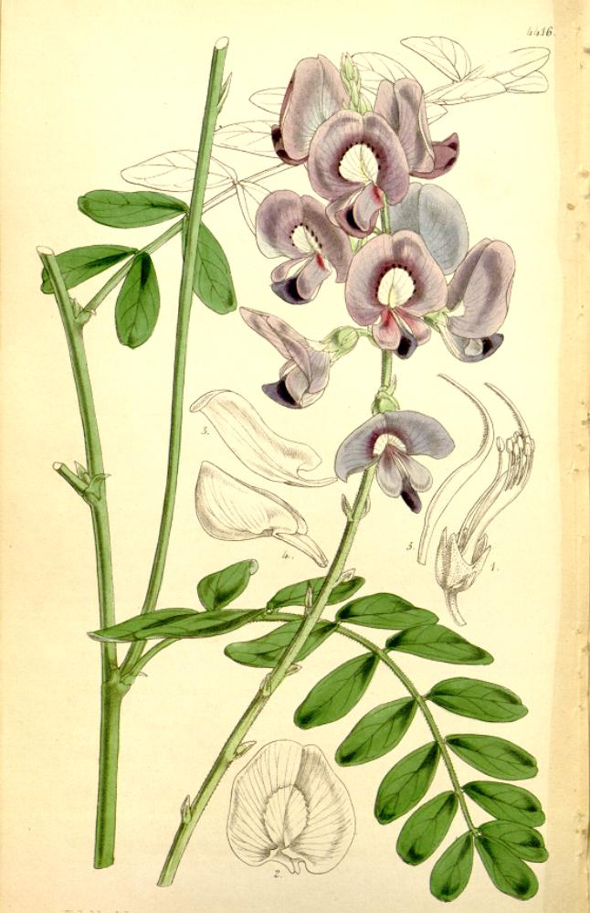 Illustration of Swainsona greyana